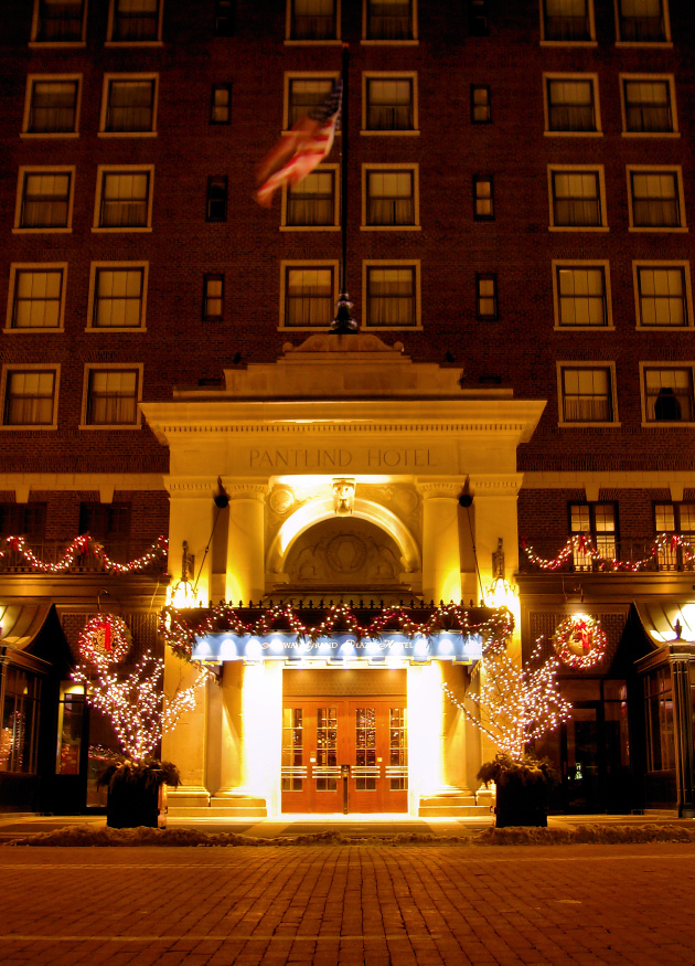 Amway Grand Plaza Hotel, Formerely Pantlind Hotel